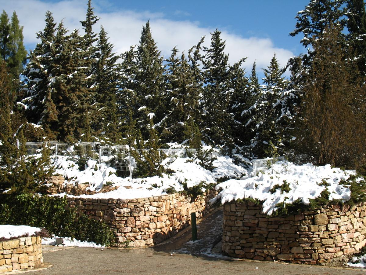 Snow in the Wohl rose garden